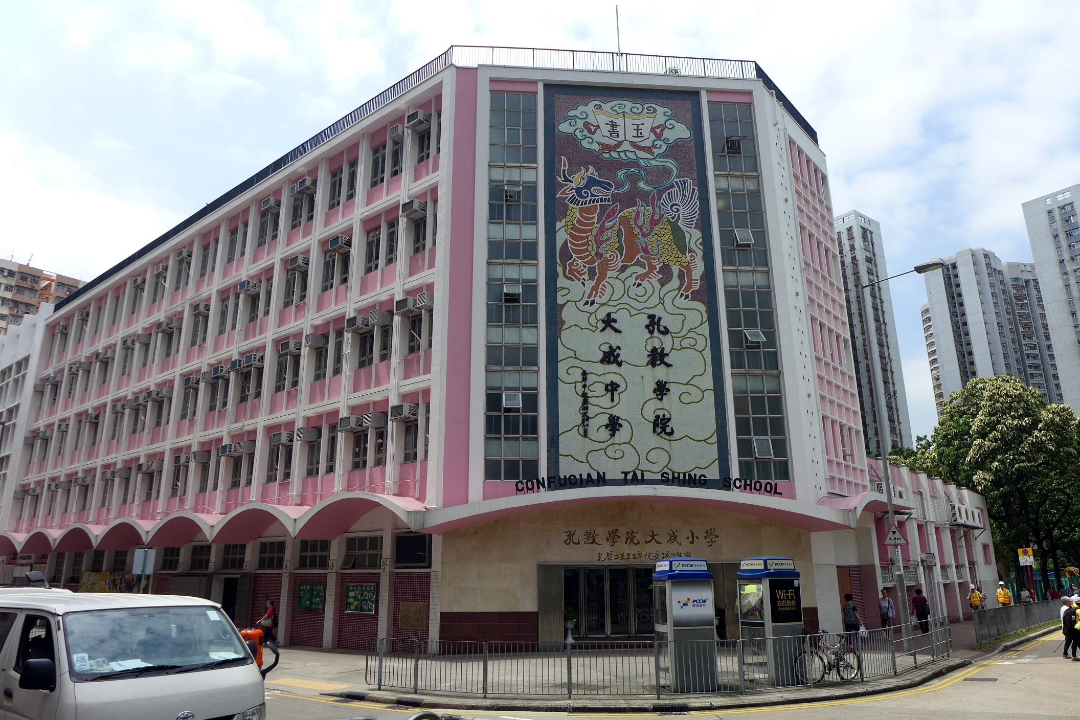 Confucian Tai Shing Primary School